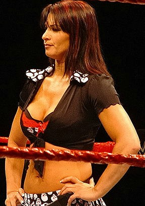 Victoria at the ring during a WWE house in November 2006